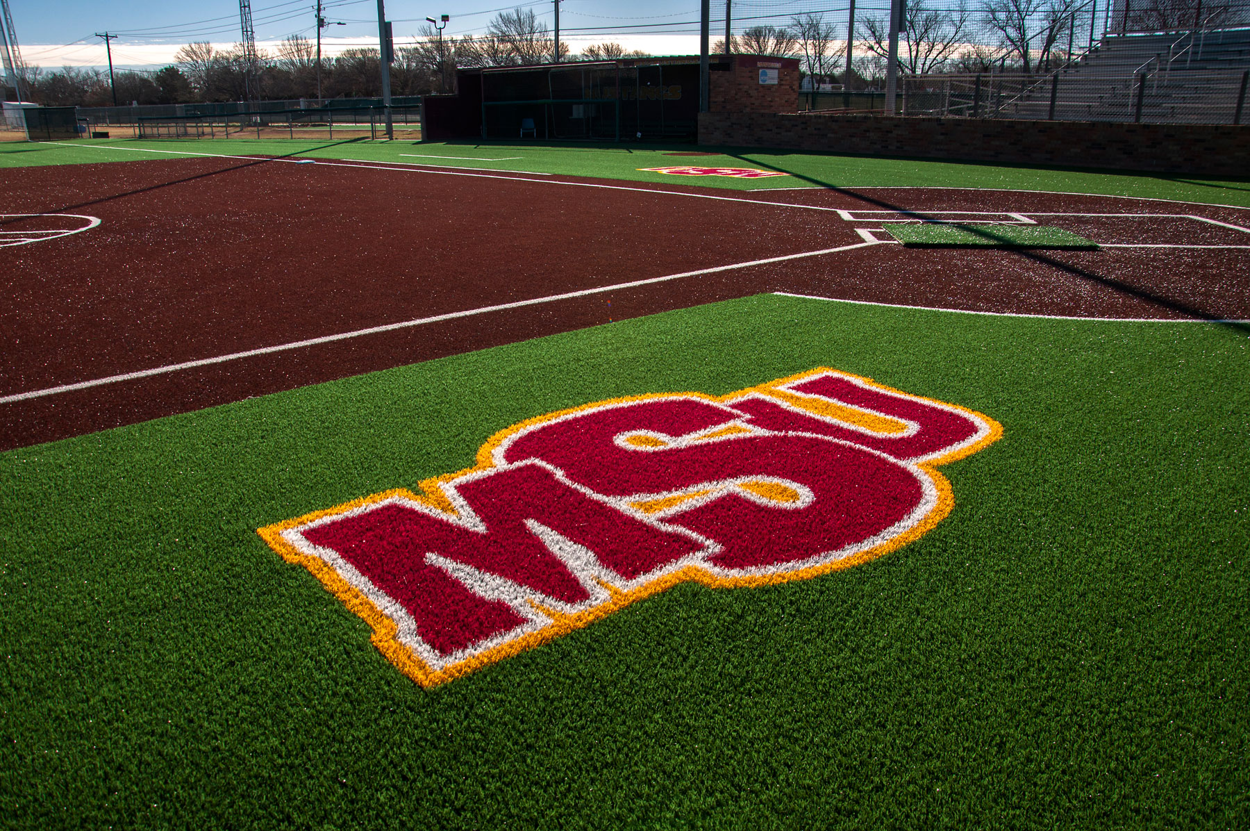 Mustangs Park was redesigned with turf for the 2016 season. The Mustangs softball team plays home games at this park.